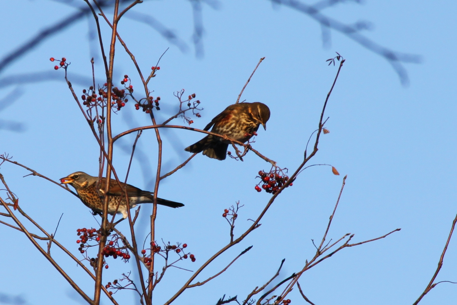 Redwing (Turdus iliacus, at right) and Fieldfare (Turdus pilaris, at left) picking rowan berries.